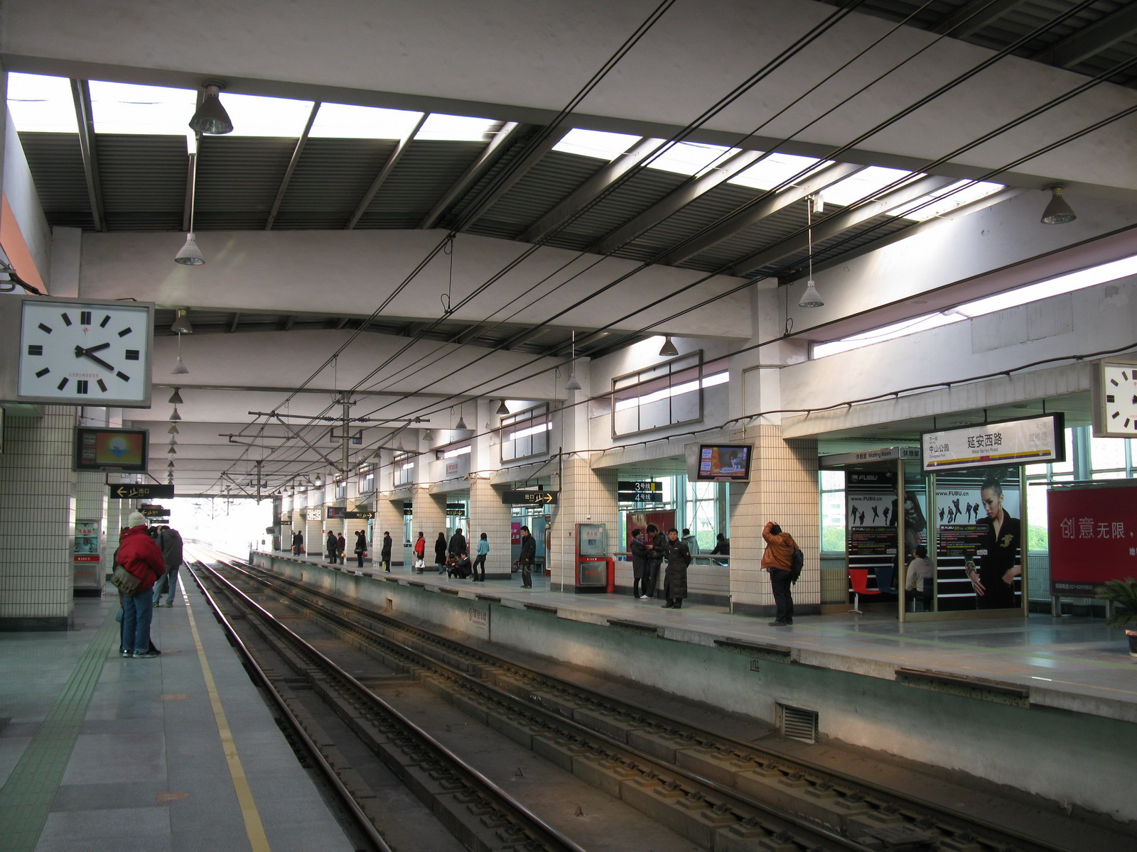 延安西路站 3号线及4号线共线月台 Line 3 & Line 4 Platform of Yan'an Road (W) Station